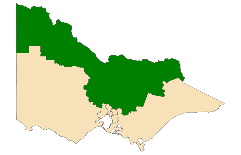 Location of the Victorian Legislative Council Region of Northern Victoria (dark green).